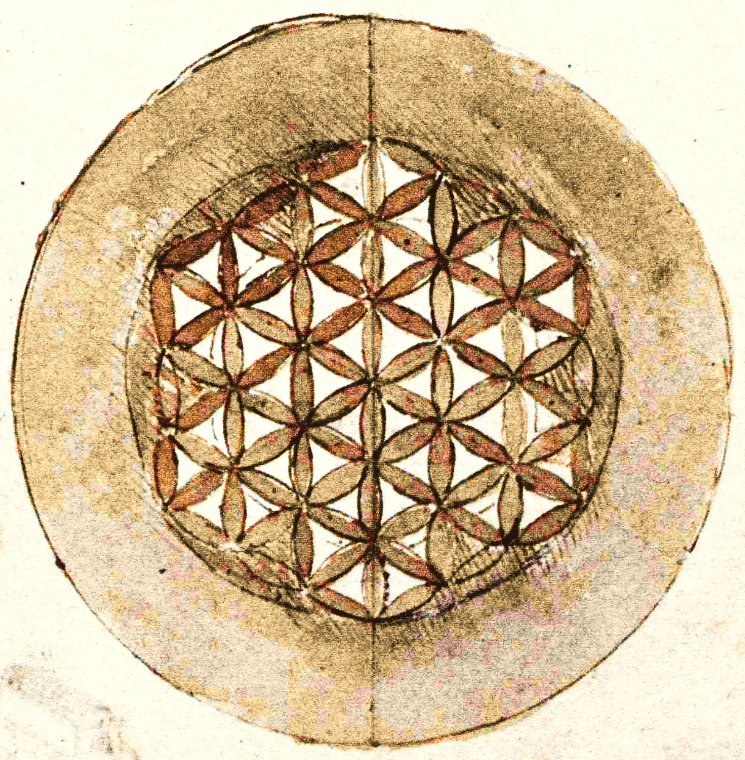 This is a picture of one of Leonardo da Vinci's drawings of geometrical structures related to the ornamental structure named today “Flower of Life”.